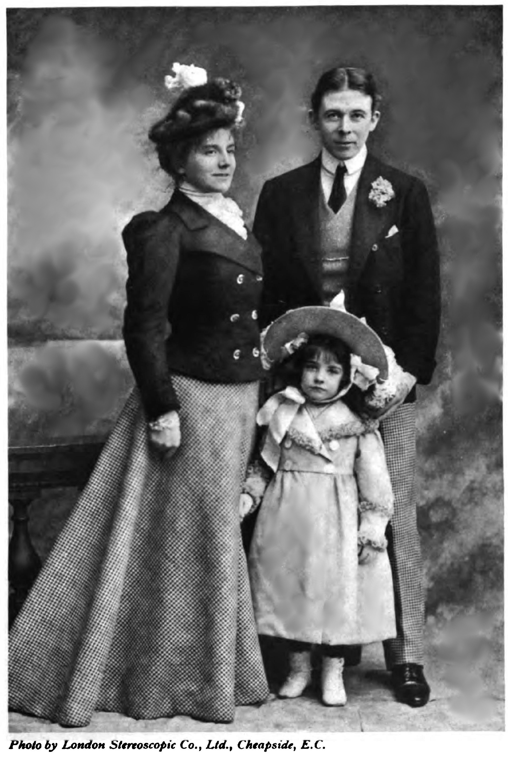 Sir Arthur Seymour Hicks (30 January 1871 – 6 April 1949), and his wife Ellaline Terriss (13 April 1871 – 16 June 1971) and their daughter Betty.